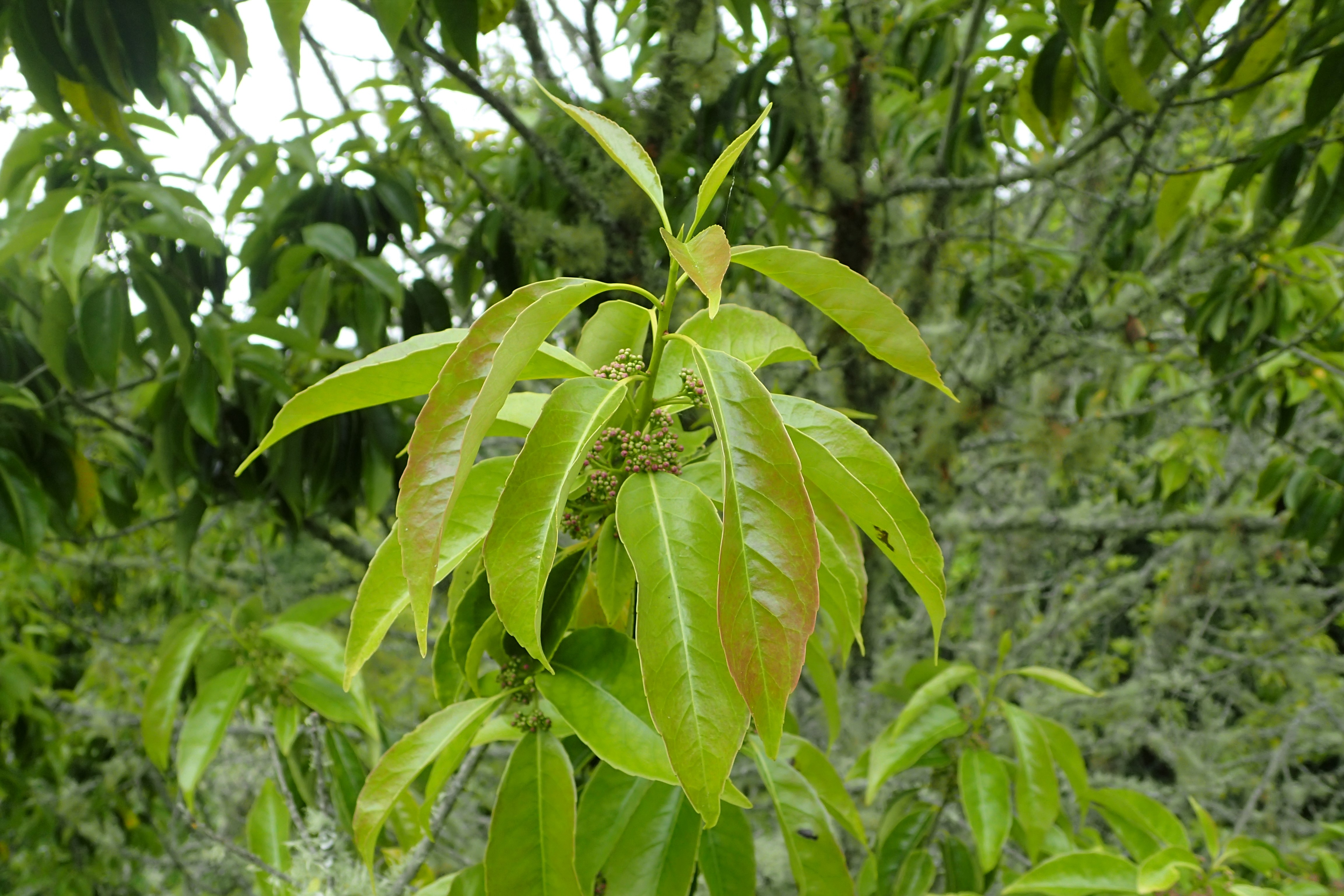 Ilex chinensis in Hackfalls Arboretum, Hawkes's Bay (NZ)